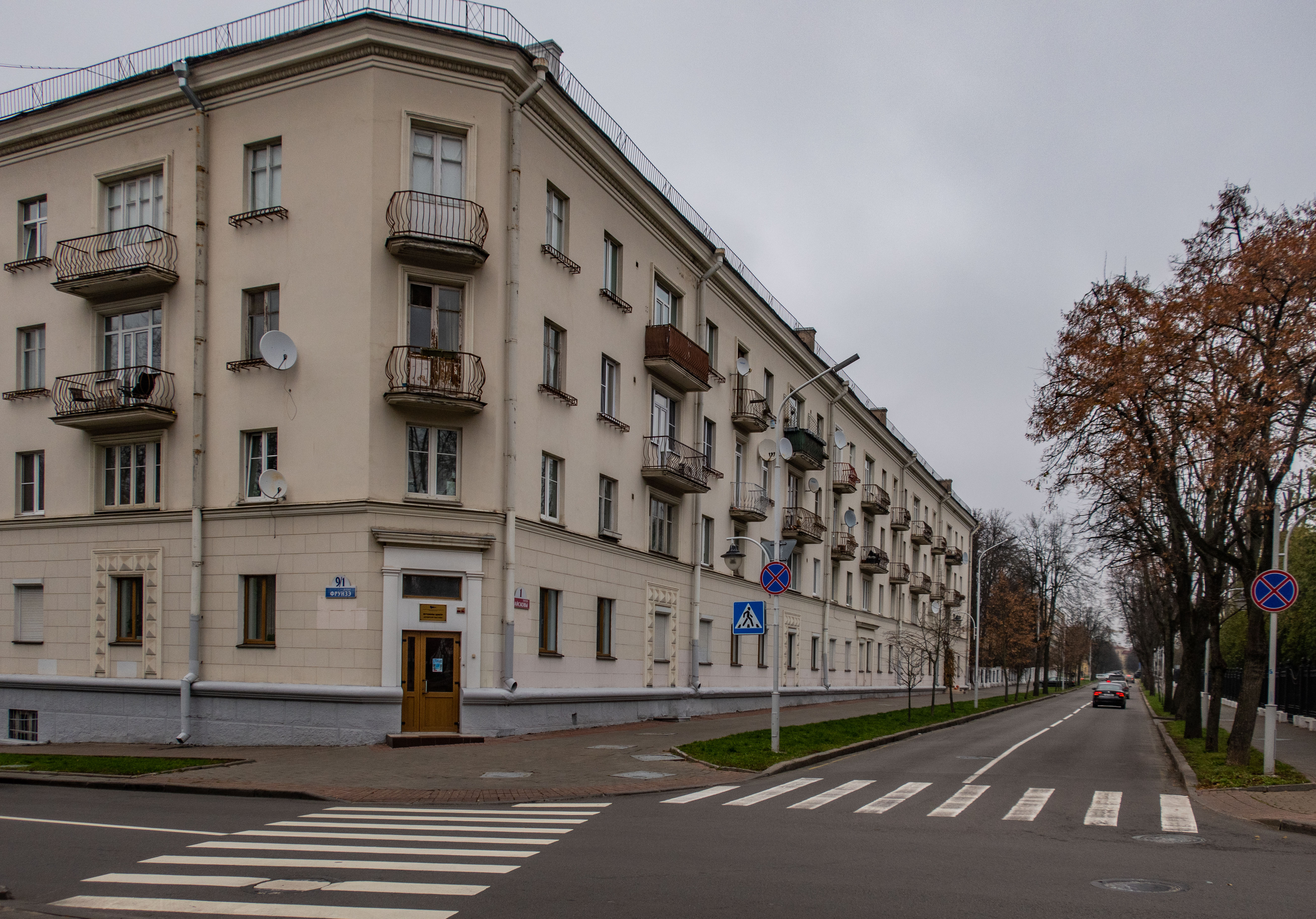 Vajskovy lane. Minsk, Belarus